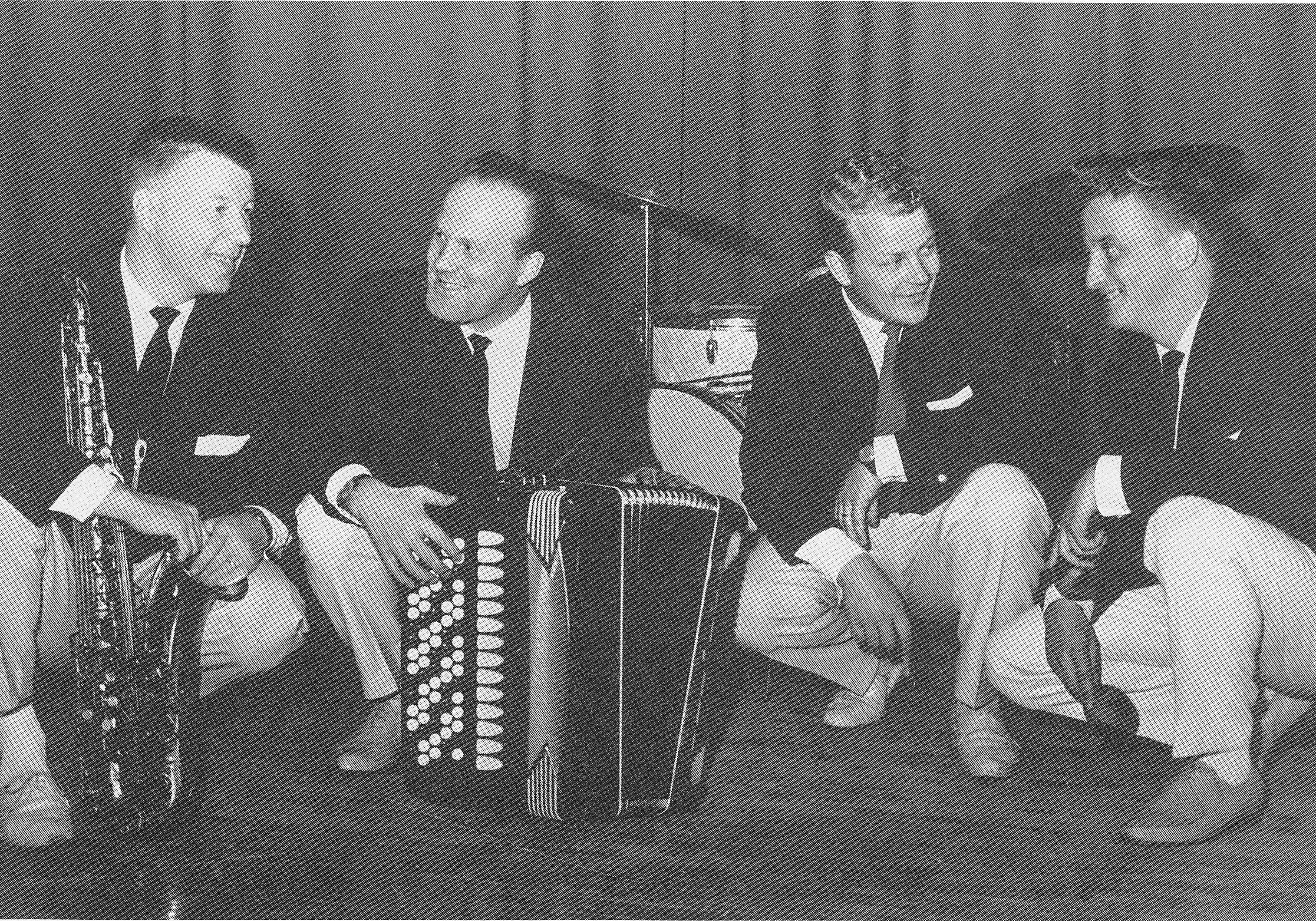 Paavo Tiusanen and his group